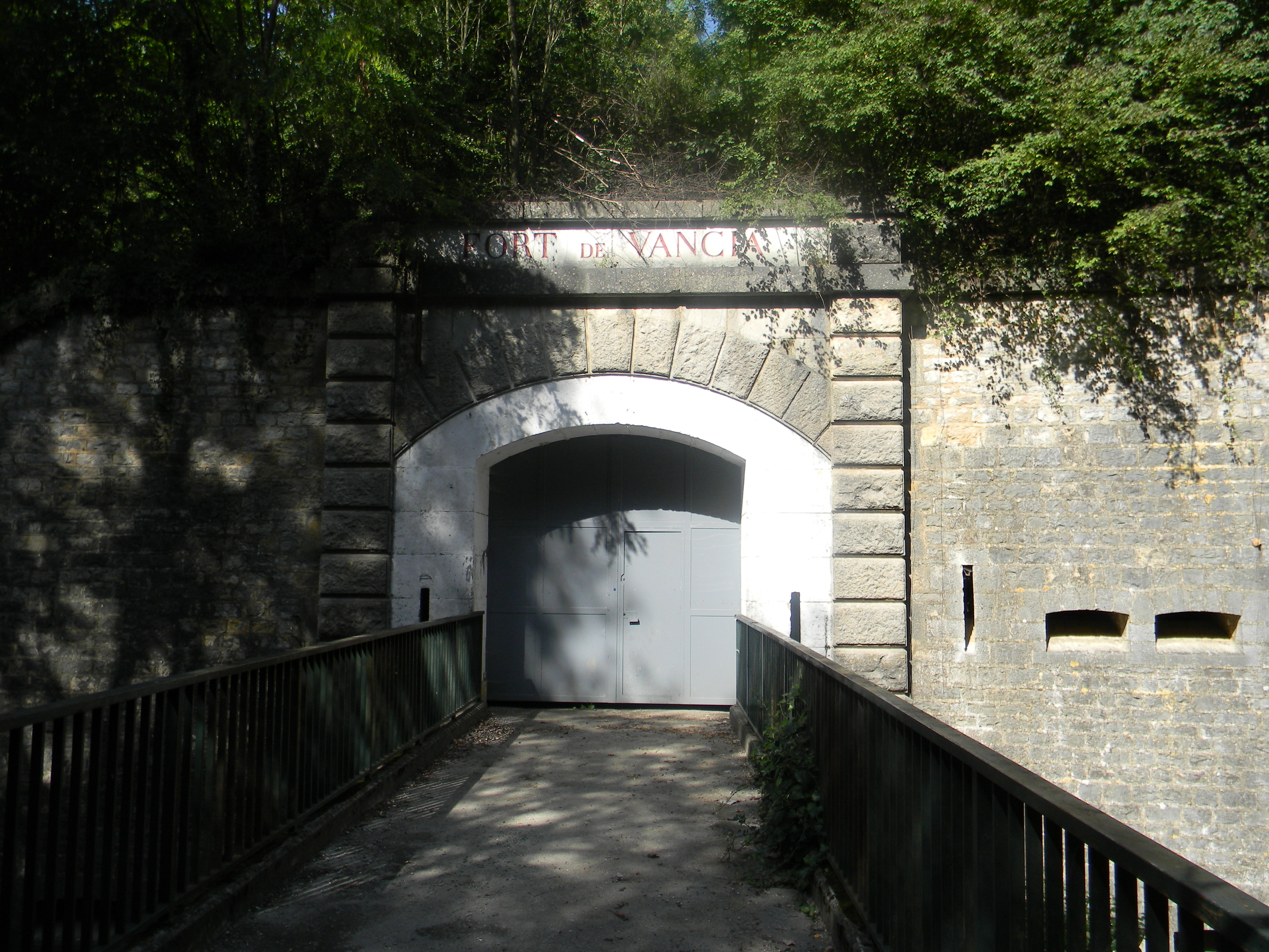 Main gate of the Vancia fort, Rhône, France.